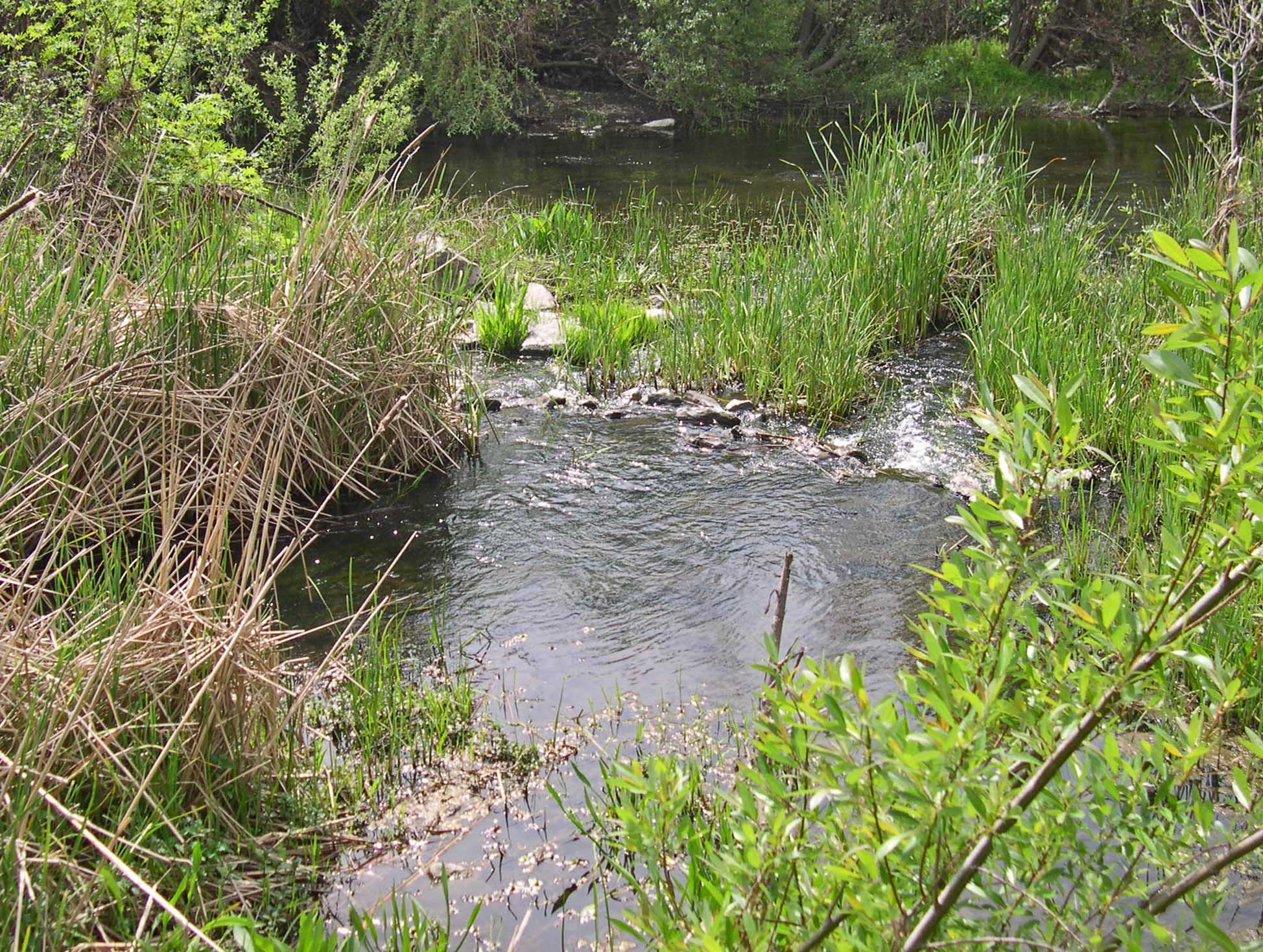 subject:Piner Creek immediately above confluence w Santa Rosa Creek, Sonoma co calif USA